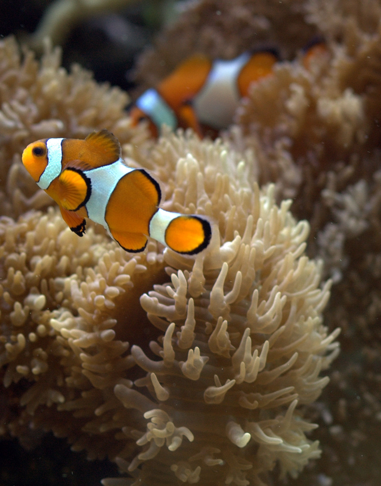 A clownfish. WHERE AND WHEN: This photo was shot in an aquarium at Nordsømuseet (i.e. The North Sea Museum) in the city of Hirtshals, Denmark. (see the museum webpage for details, [1]) on the 6th of May, 2006. The camera was outside of the aquarium though.